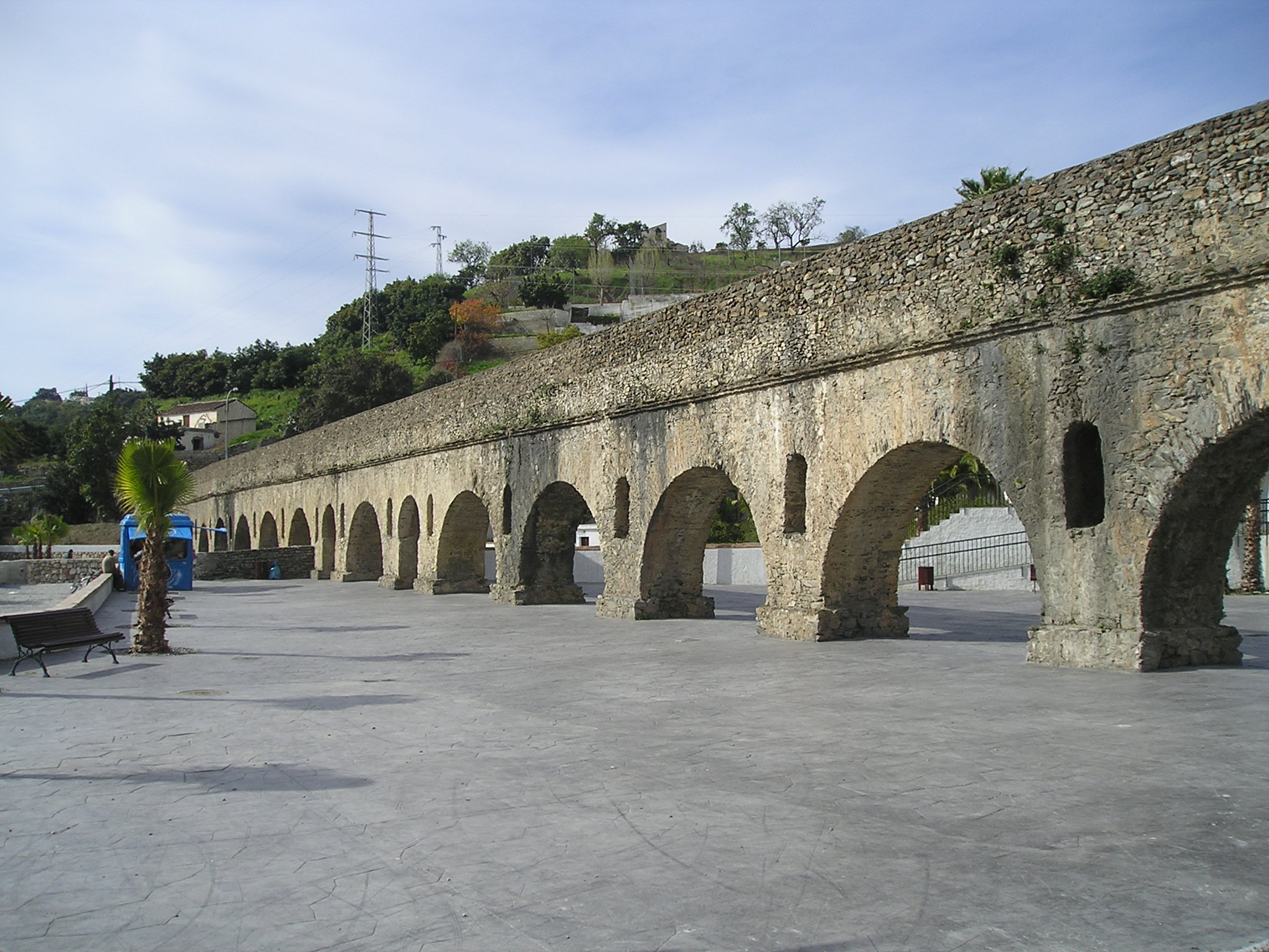 Photograph taken by me Noel Walley.